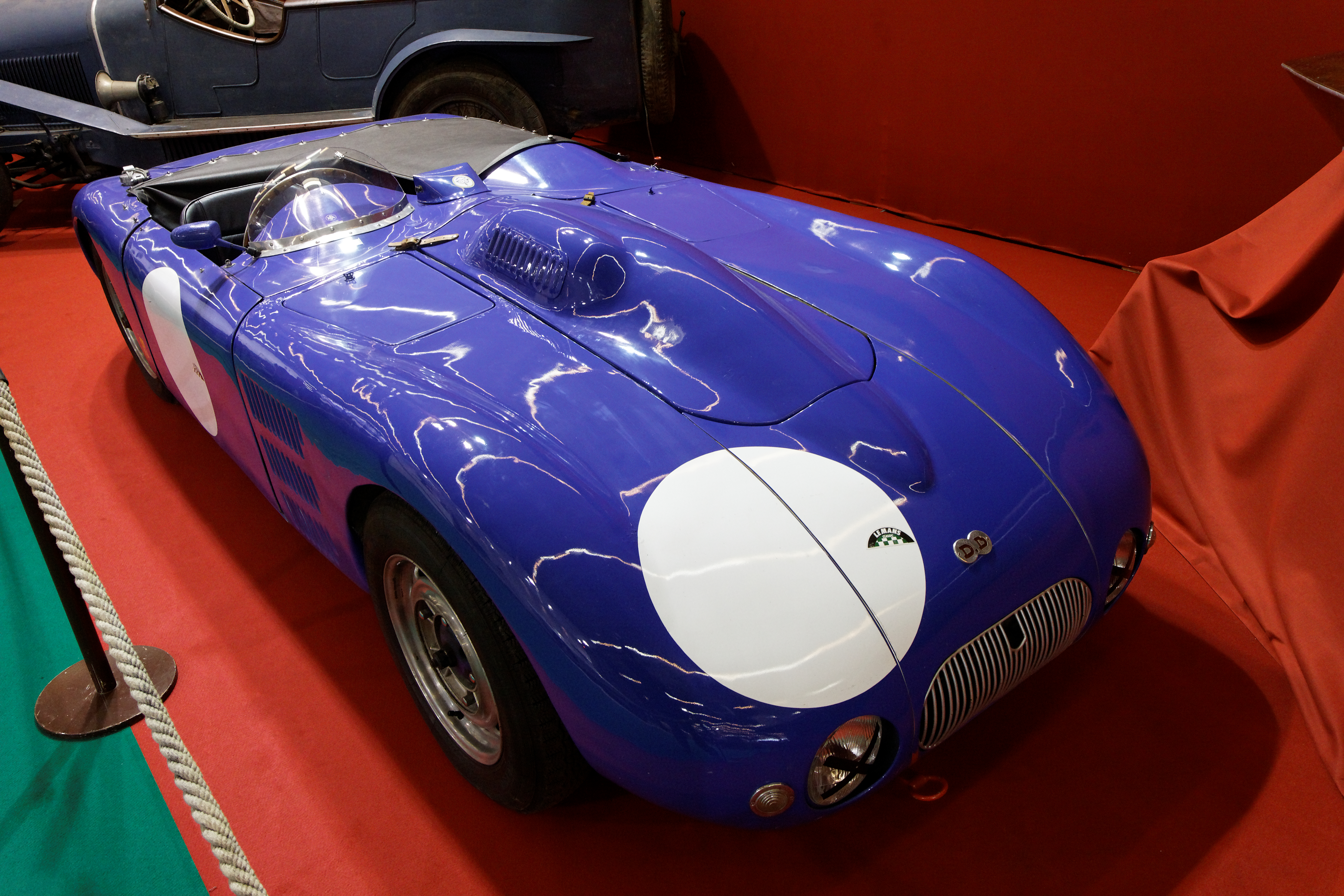 1945 DB 5, Citroën-engined racer and Le Mans competitor at the 2011 Rétromobile exhibition in Paris. This car DNF'd at Le Mans in both 1949 (#42) and 1950 (#64).